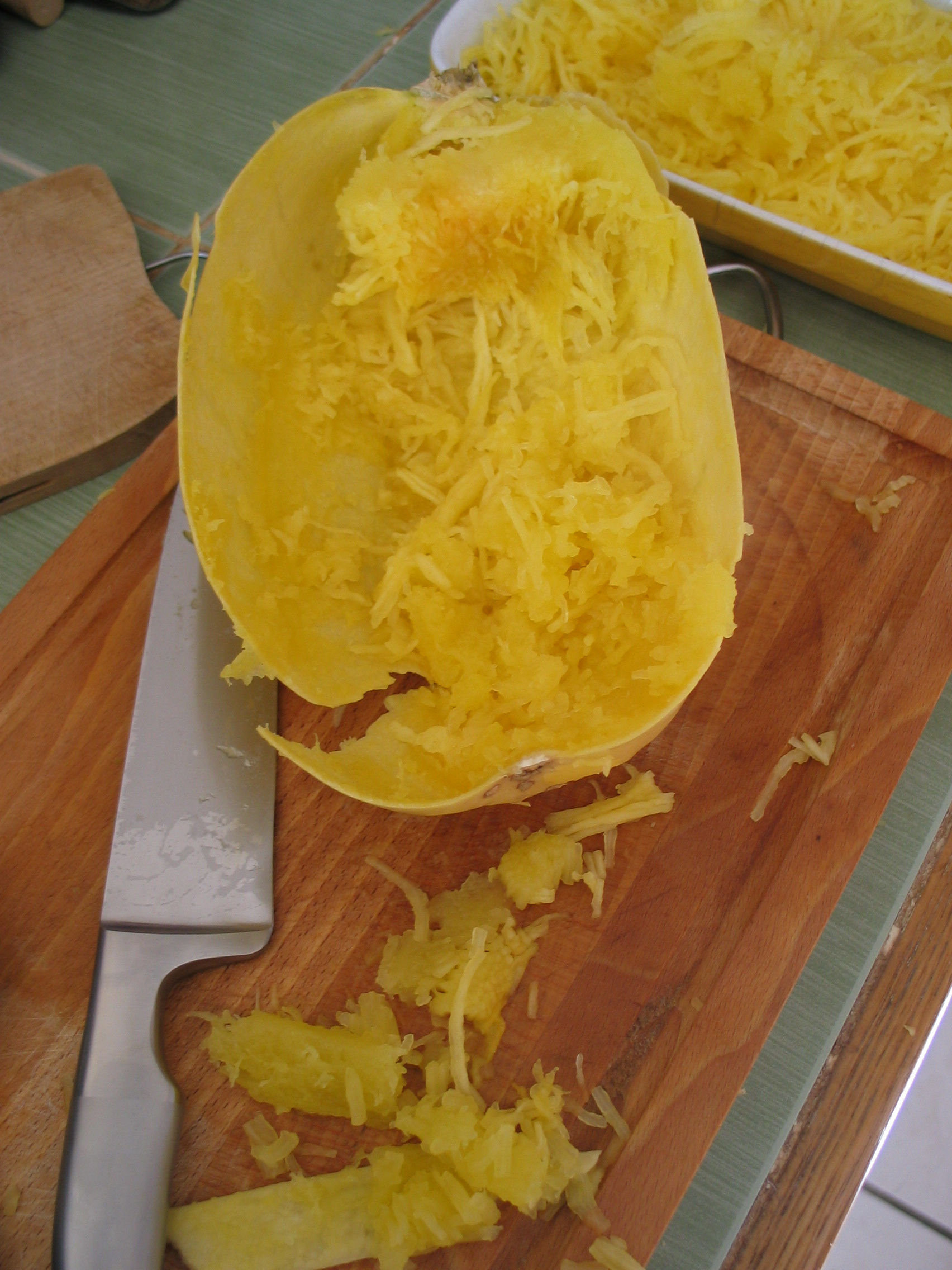 Spaghetti Squash cooked